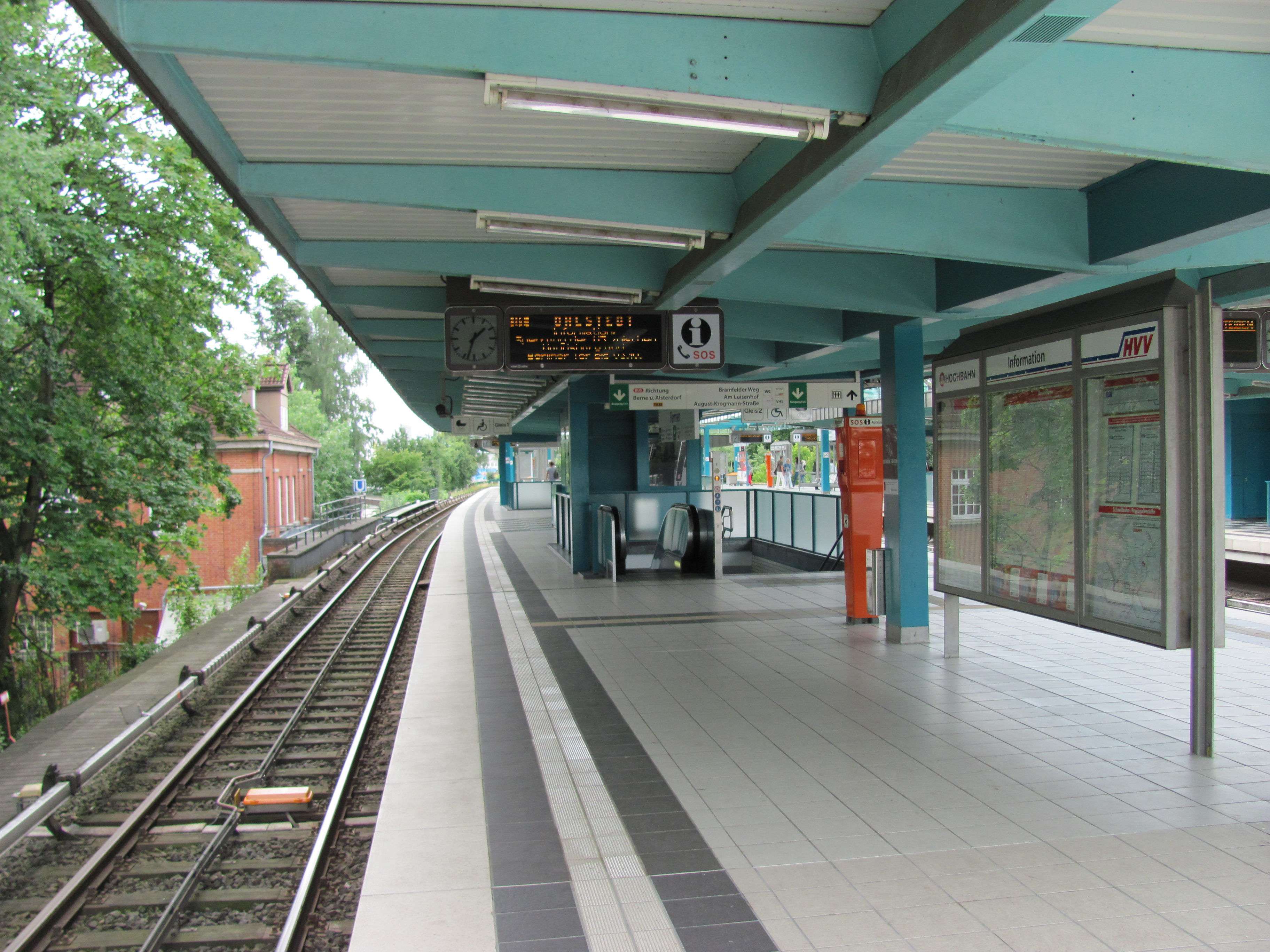 U-Bahn station Farmsen in Hamburg, Germany